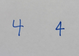 Two ways to draw a handwritten cipher four.